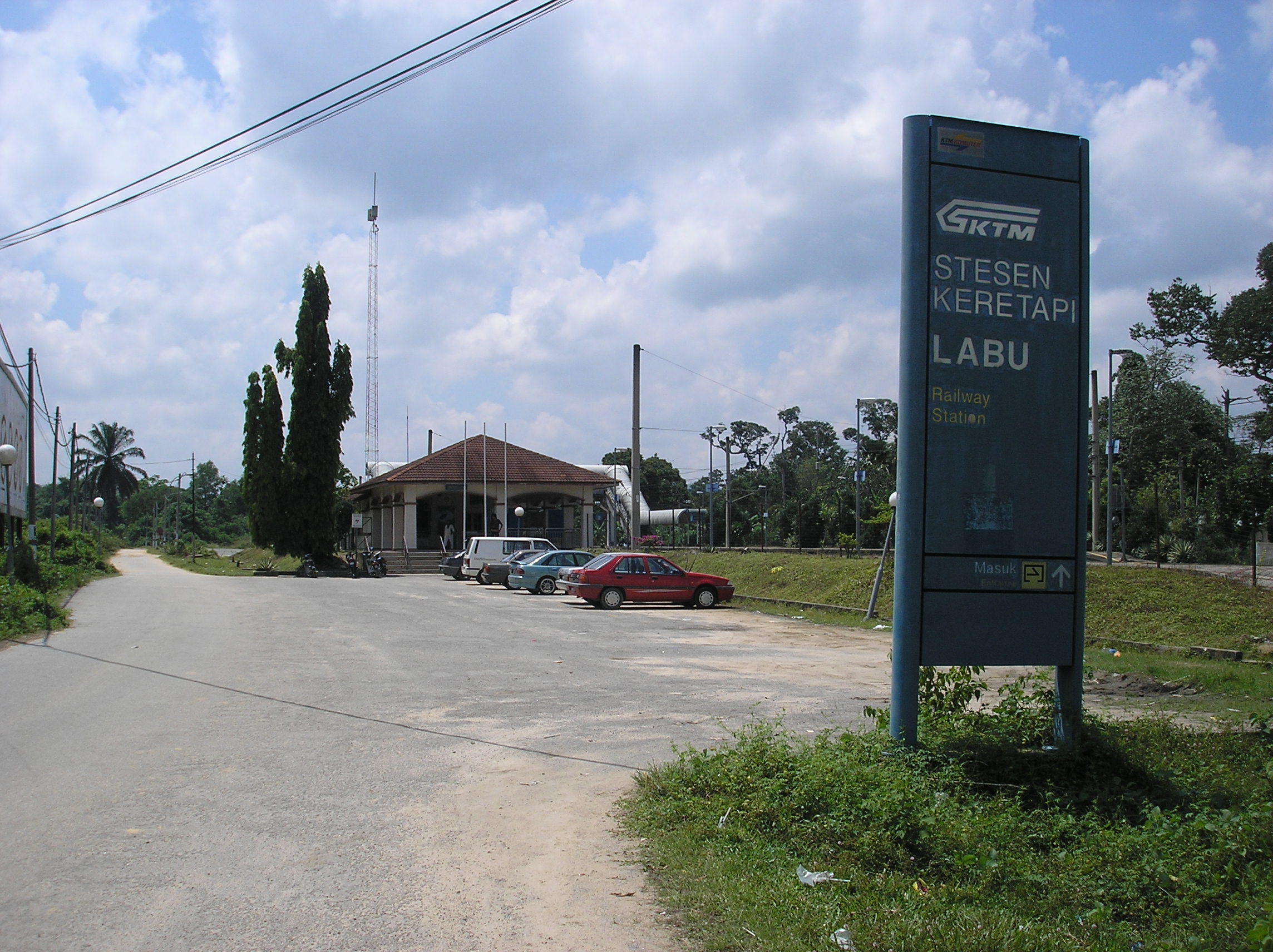 The Labu station (Rawang-Seremban Line), as seen from its main entrance in Labu, Negeri Sembilan, Malaysia.